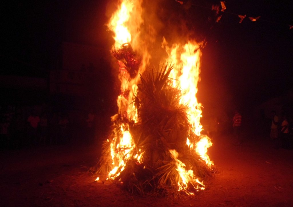 scene of "sokkapanai" burning in a village near madurai. this is a ritual performed to send off seasonal rain.